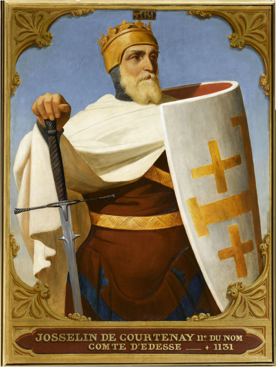 Joscelin of Courtenay, Count of Edessa